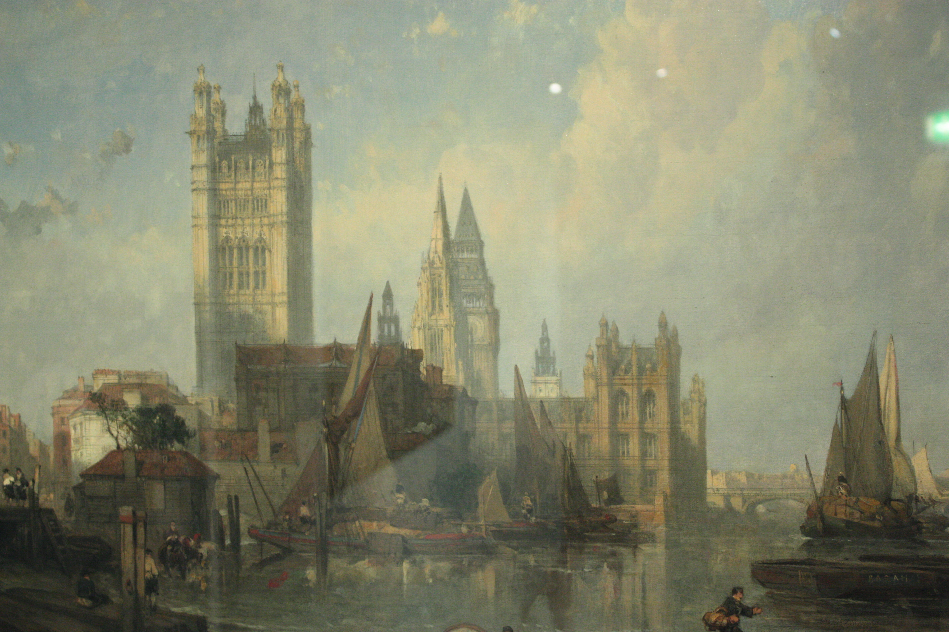 The Houses of Parliament from Millbank by David Roberts, 1861